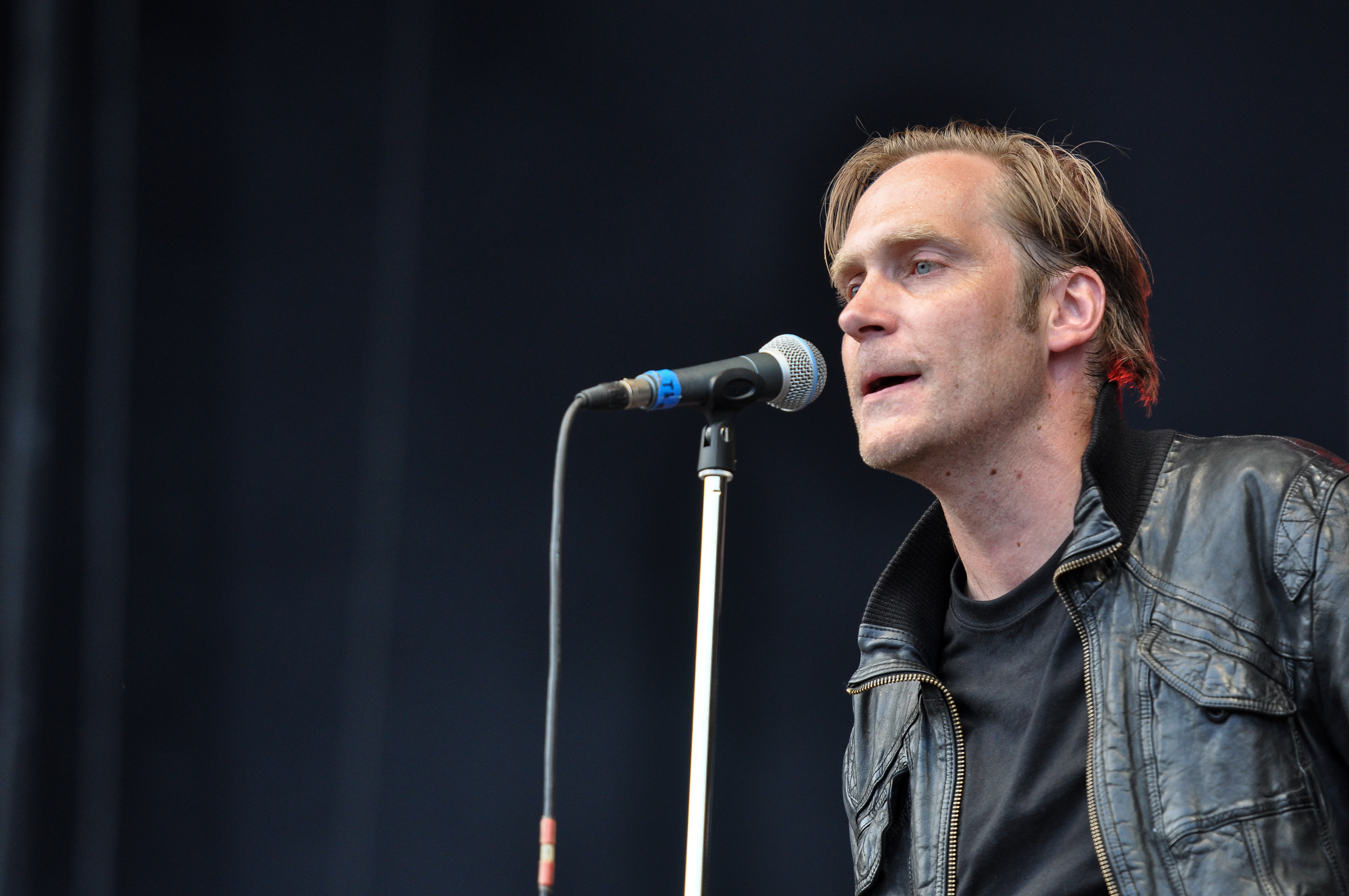 Thees Uhlmann performing at Greenville Festival 2013